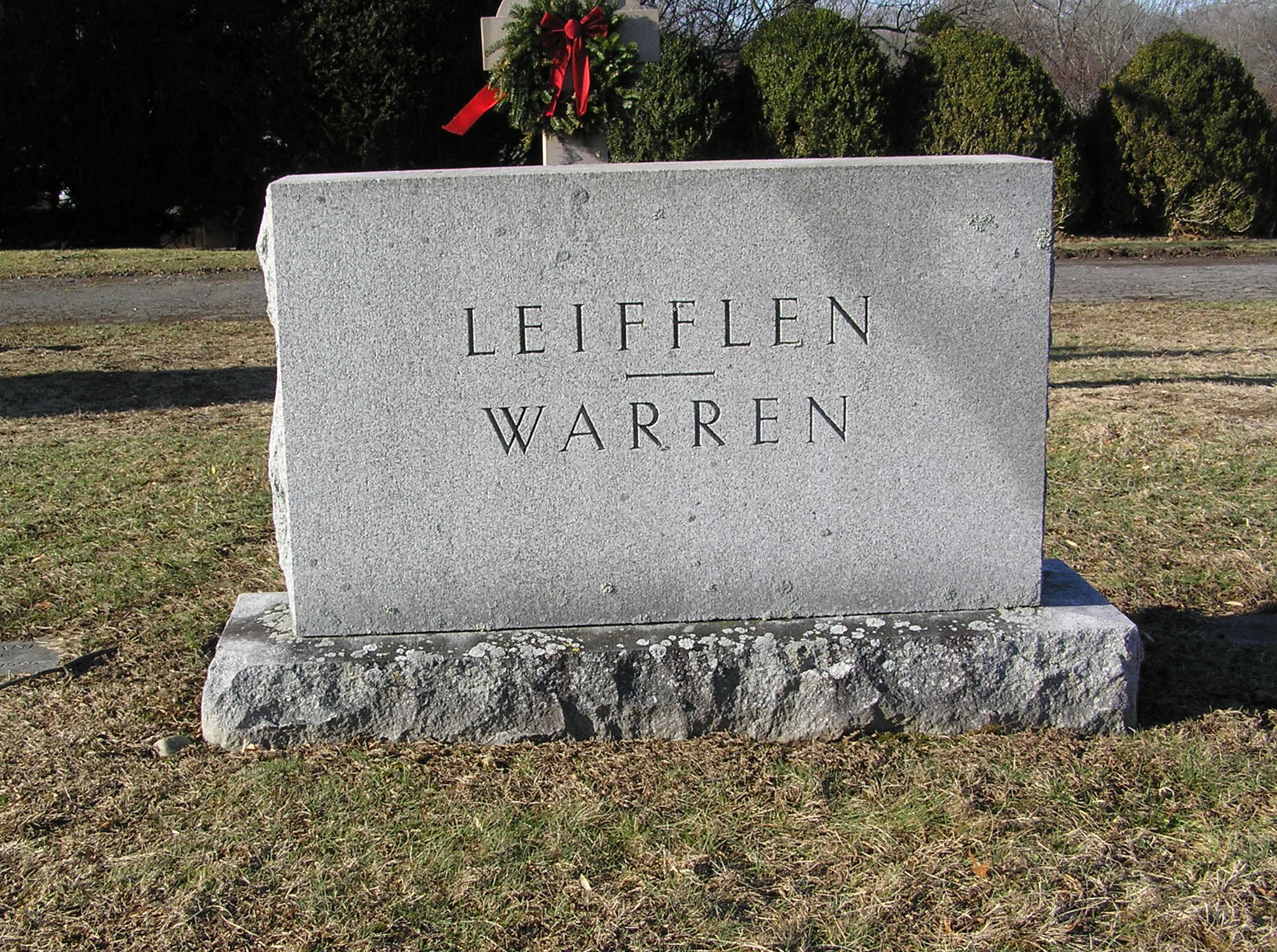 A photograph of the gravesite of Leonard Warren in Saint Mary's Cemetey, Greenwich, Connecticut